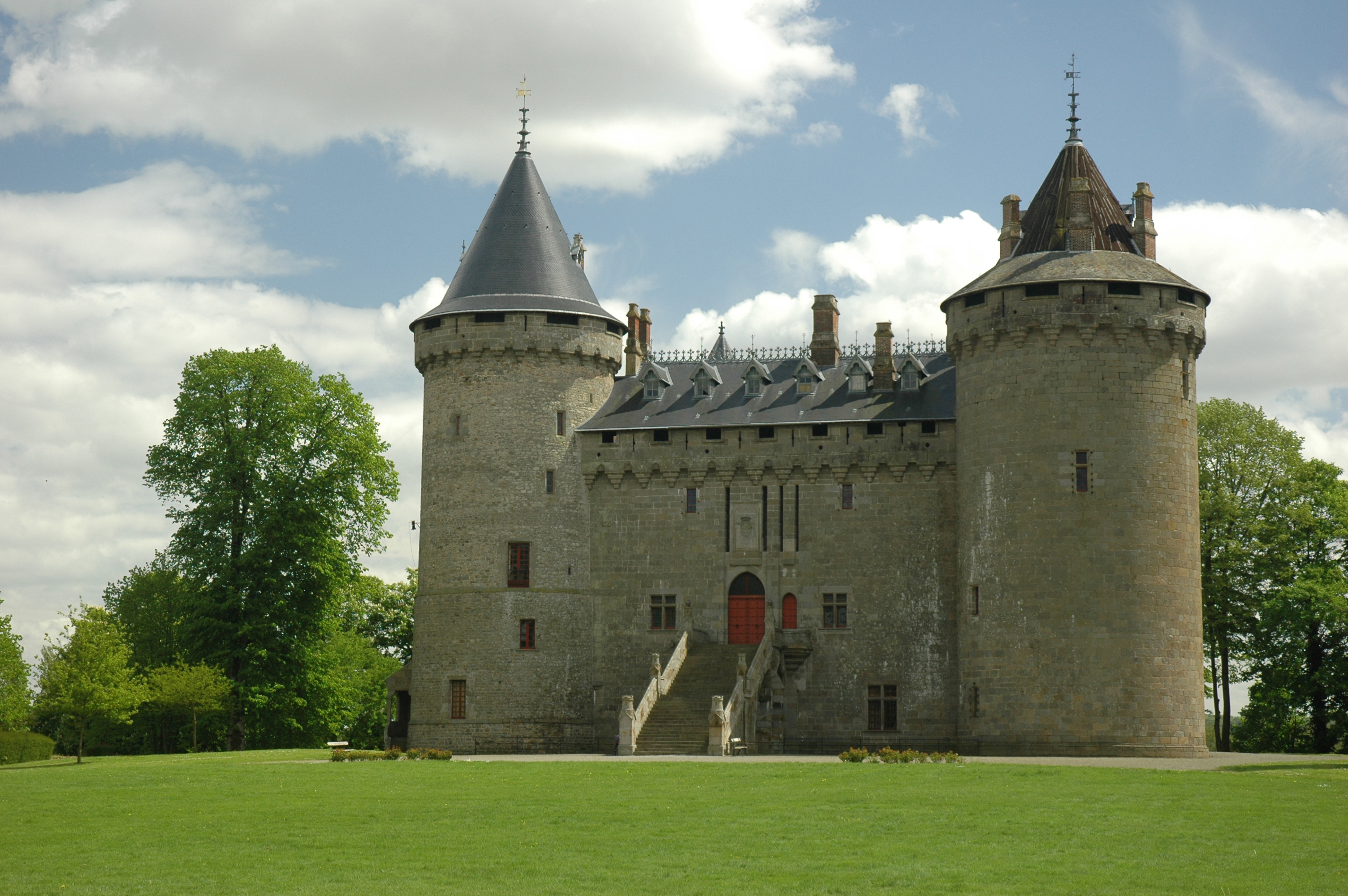 Castle of Combourg